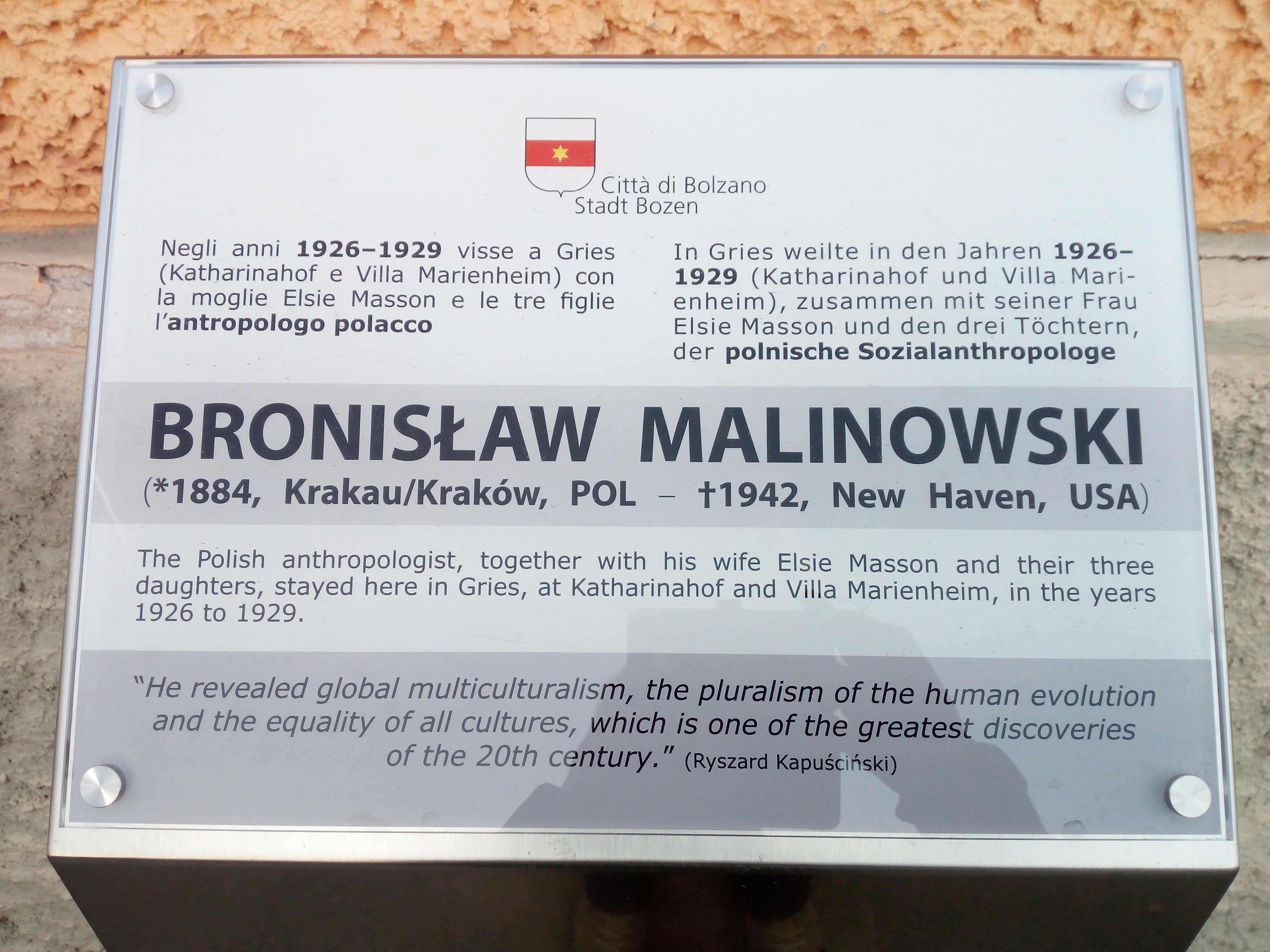 Memorial plaque remembering Bronislaw Malinowski's and Elsie Masson's stay in Gries-Bozen/Bolzano during the 1920s and 1930s